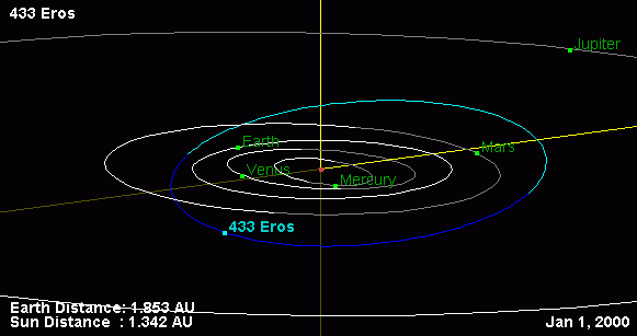 orbit of Eros